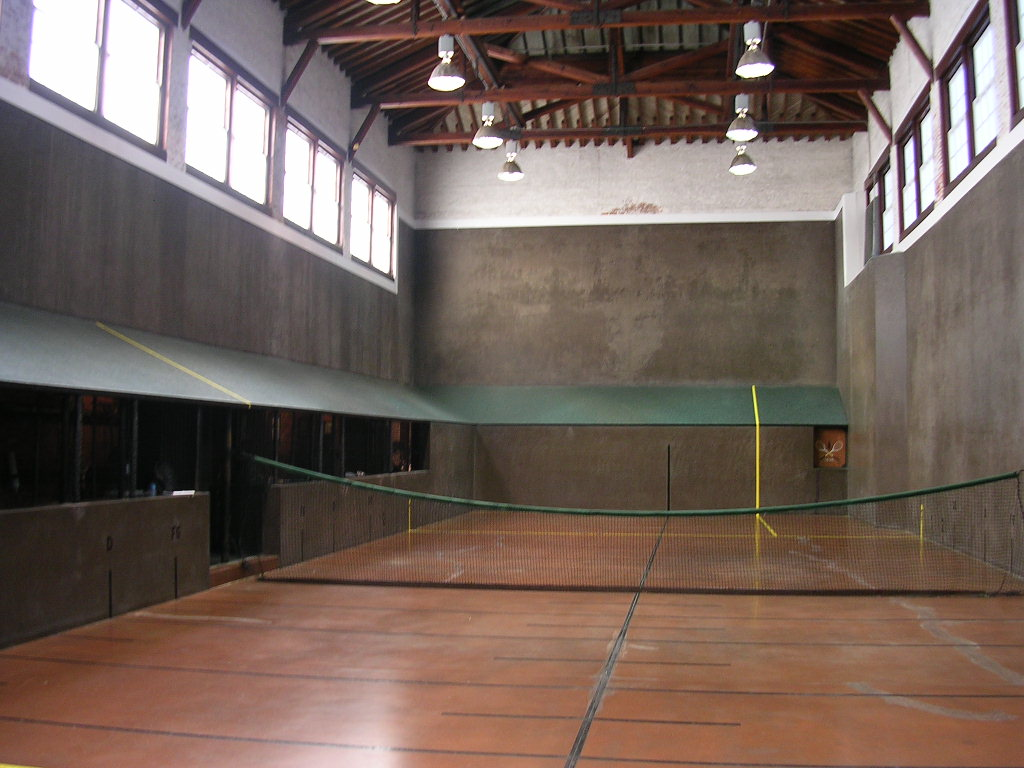 Interior of the Aiken Tennis Club constructed in 1902 at 146 Newberry Street, SW in Aiken, South Carolina, USA. View of the court's hazard side taken from the service side. 33°33′34″N 81°43′16″W / 33.55944°N 81.72111°W